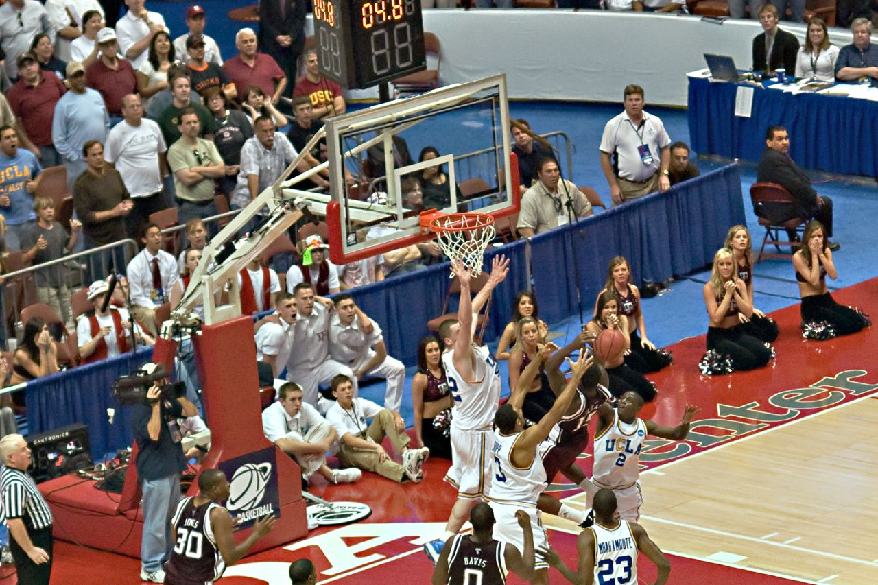 Second Round of the 2008 NCAA Division I Basketball Tournament in Anaheim, CA. UCLA defeated Texas A&M 51-49.